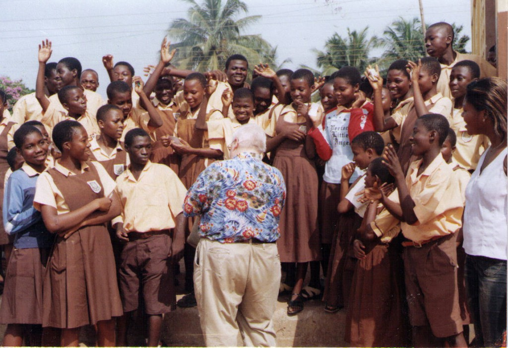 Dr. John speaking to young teens in rural Ghana